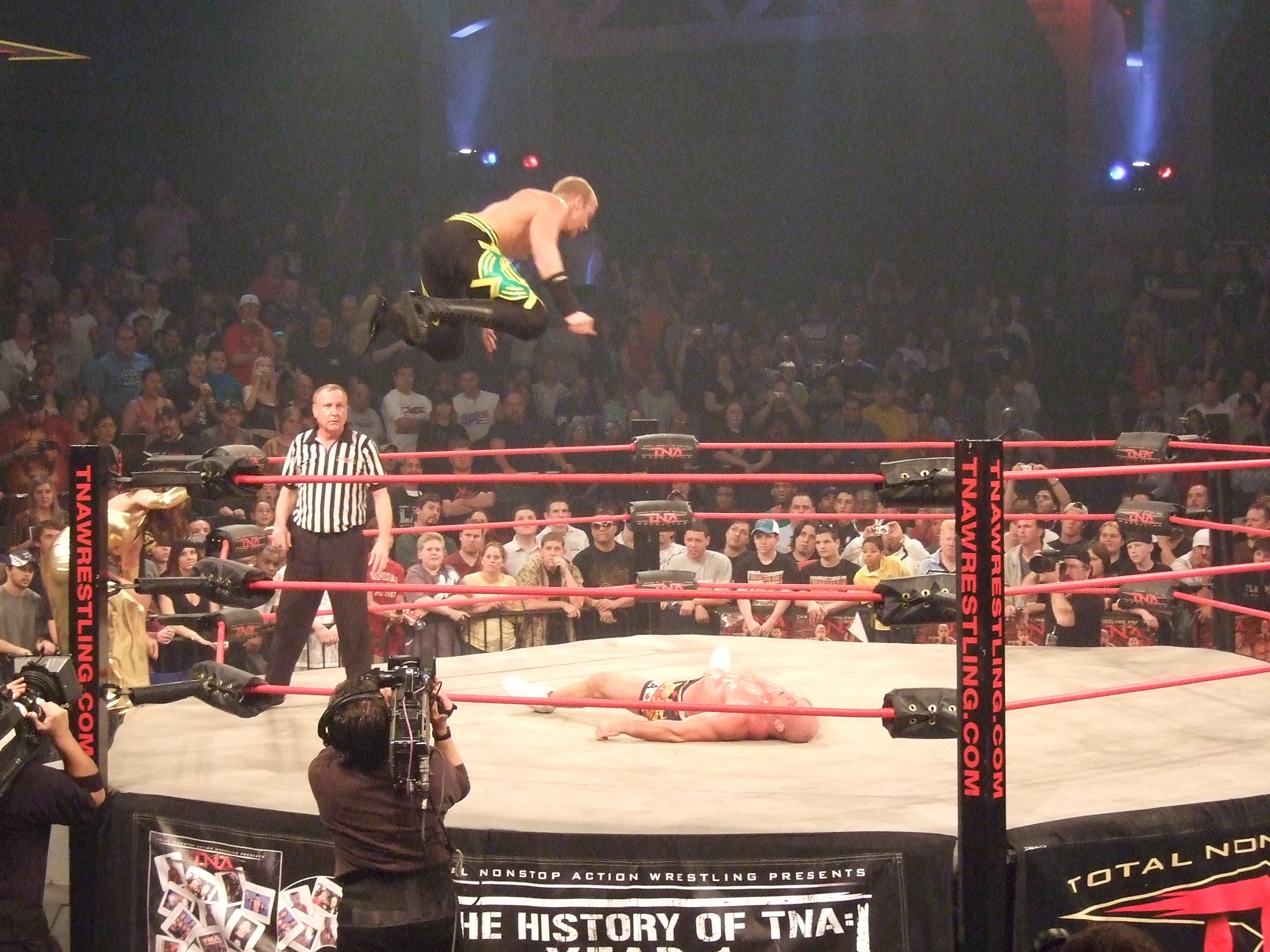 Christian Cage Performing His Signature Frog Splash on Kurt Angle